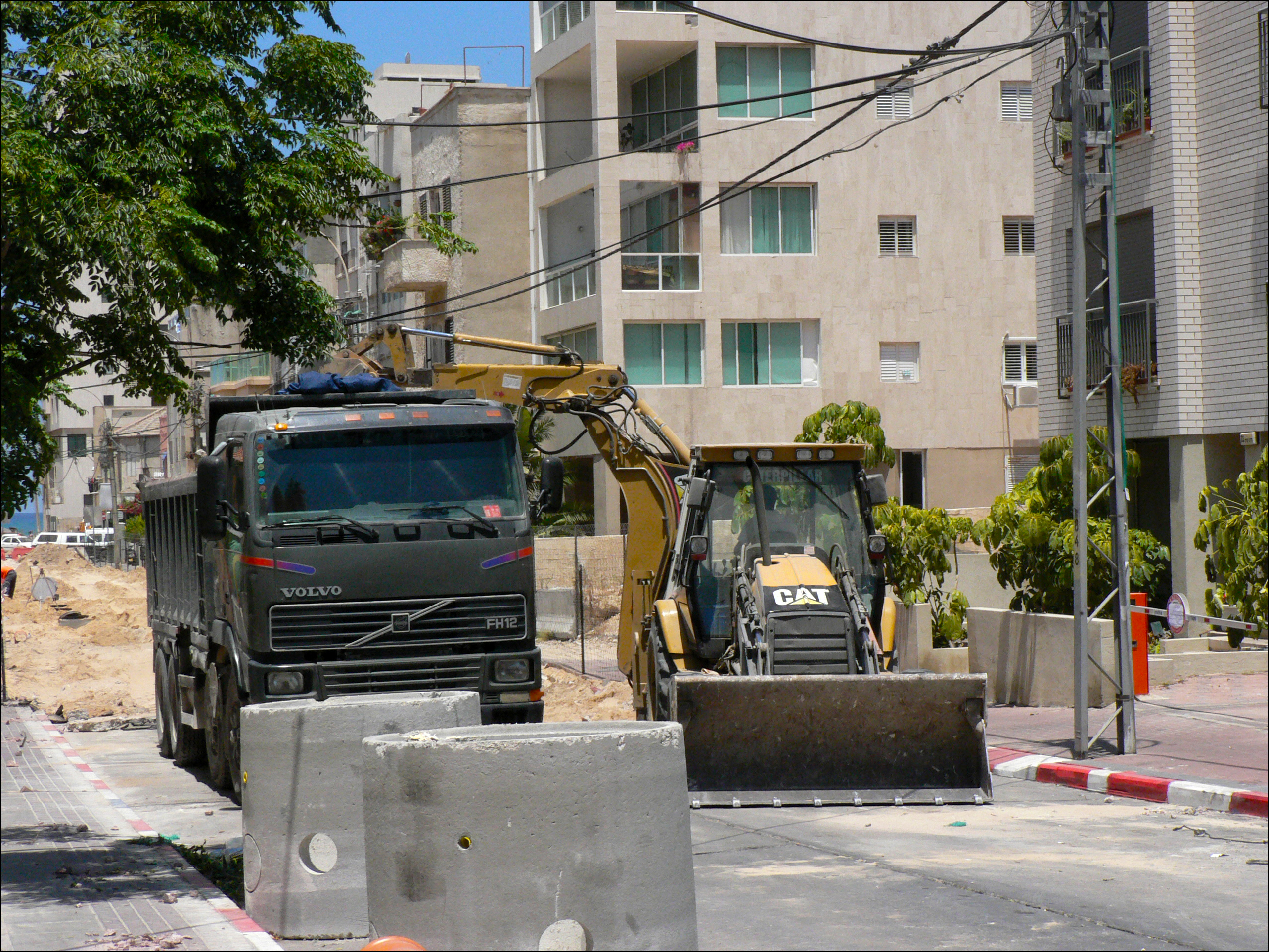 Caterpillar backhoe loader, Tel Aviv, Israel